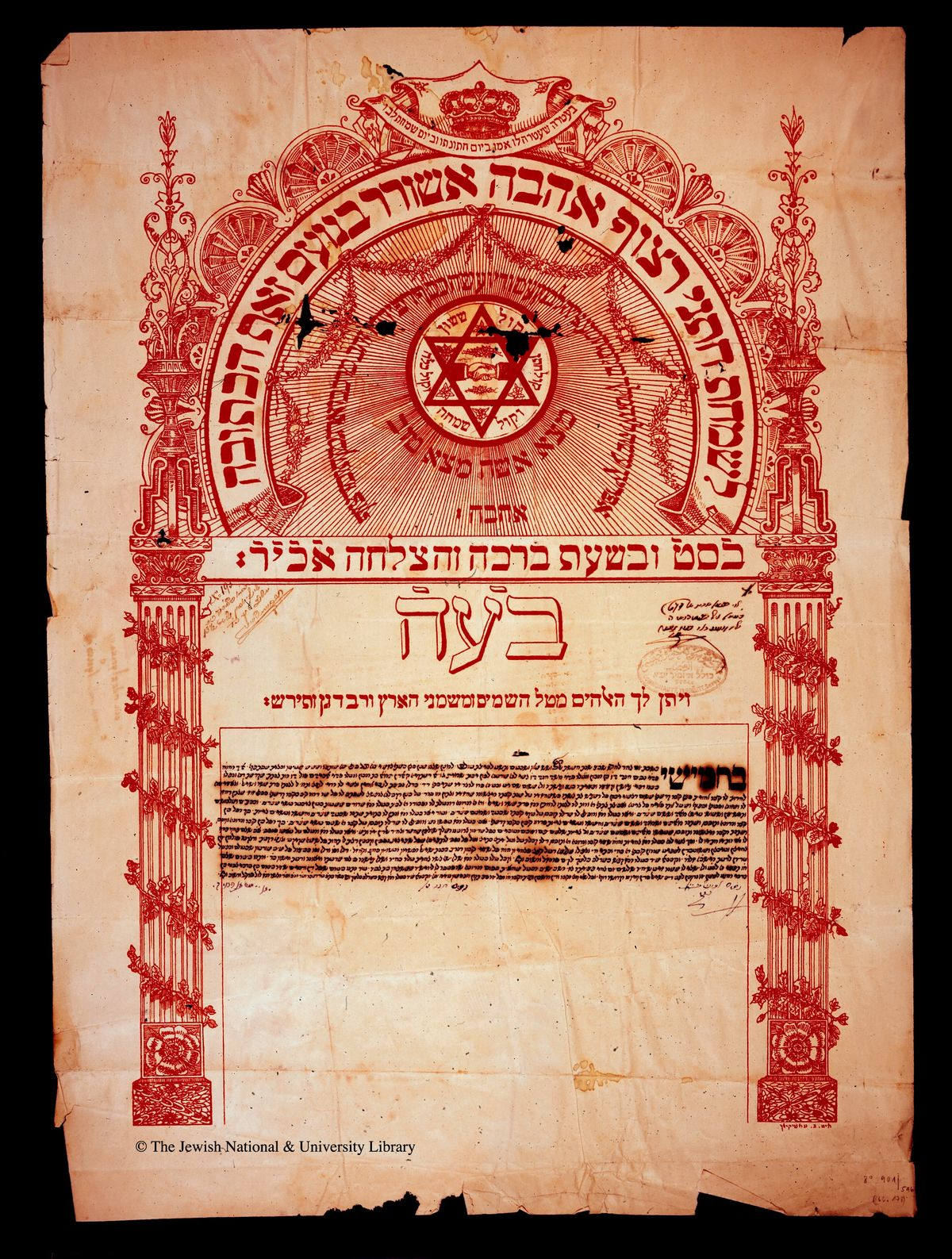 Ketubah from The Ketubot Collection of the National Library of Israel